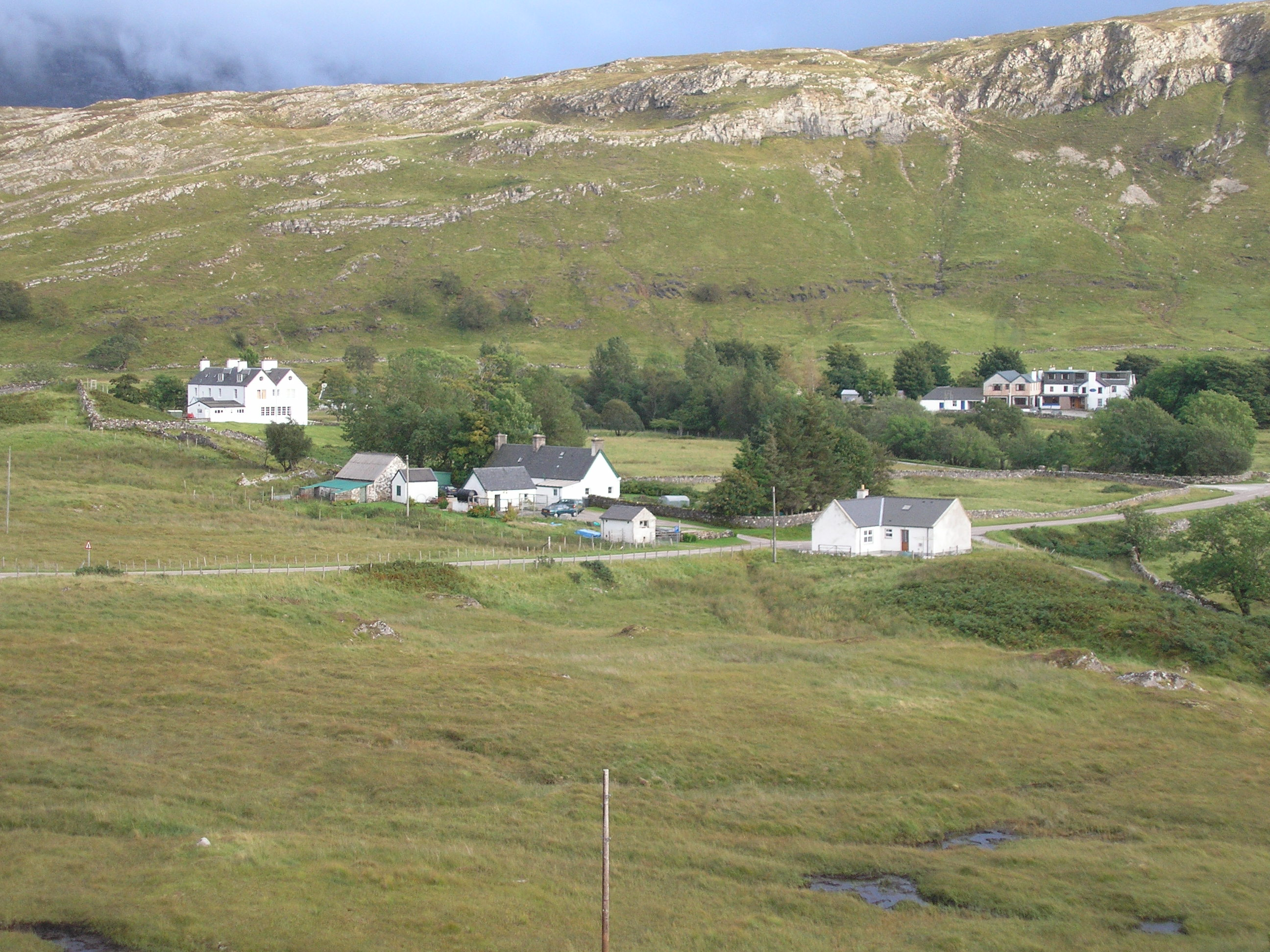 Inchnadmaph, Assynt, Scotland